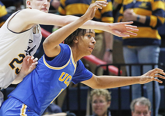 University of California Golden Bears versus University California Los Angeles Bruins, Pac-12 Mens Basketball, Haas Pavilion Berkeley, CA